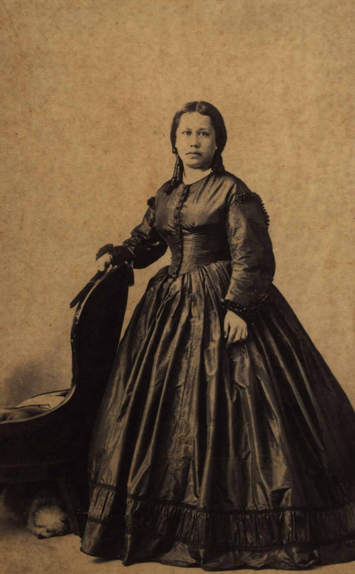 Amoe Ululani Kapukalakala Ena Haʻalelea (July 21/22, 1842 – April 26, 1904), oldest daughter of John Ena (Zane Shang Hsien) and Kaikilanialiiwahineopuna. She married High Chief Levi Haʻalelea at the age of 16. She was a great benefactor of Kawaiahaʻo Church, and she and her husband are buried in the church cemetery.